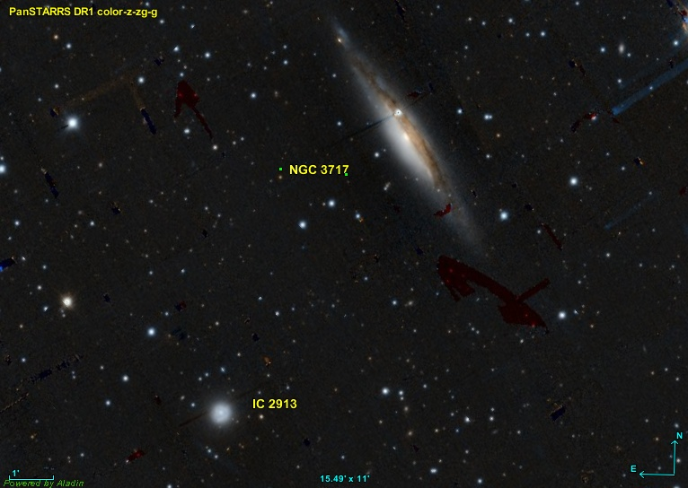 Image created using the Aladin Sky Atlas software from the Strasbourg Astronomical Data Center and Pan-STARRS (Panoramic Survey Telescope And Rapid Response System) public data.